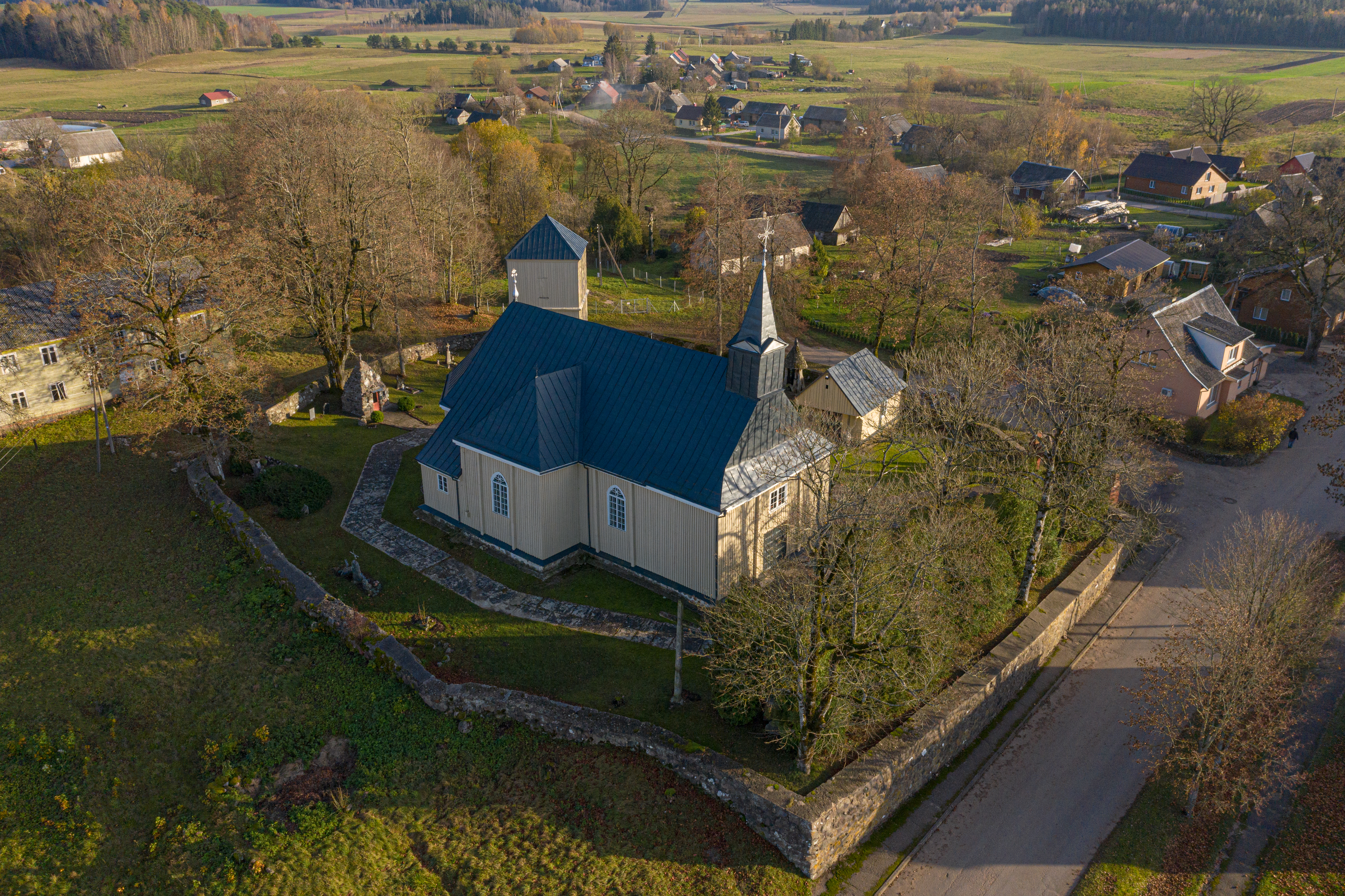 Kantaučių Švč. Mergelės Marijos Nekaltojo Prasidėjimo bažnyčia